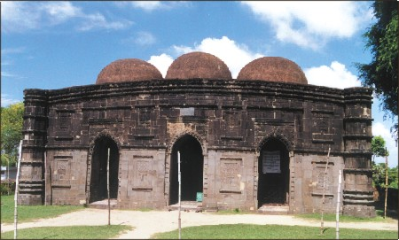 A Picture of Kusumba Mosque